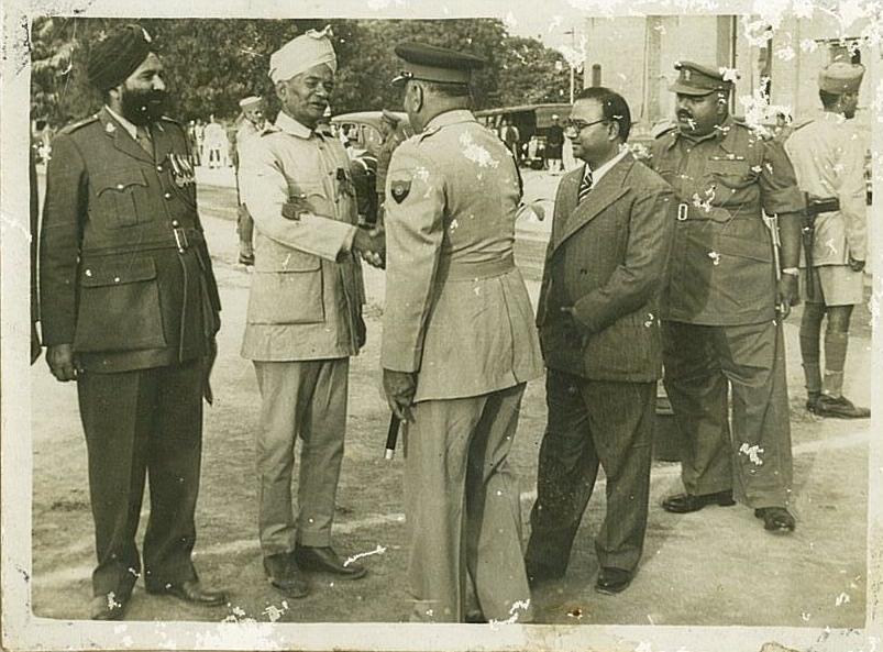 Photo displays Chatta Singh meeting Army Chief Rajendrasinhji Jadeja during an army meet up in year 1953.